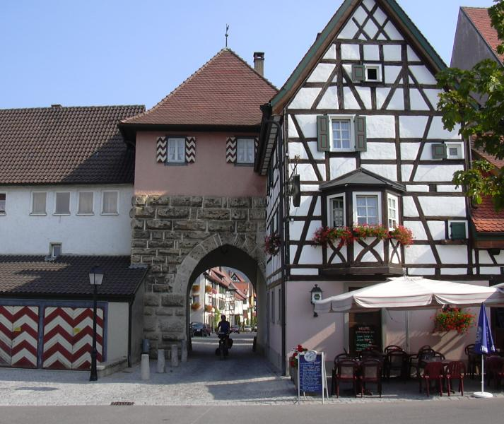 Western town gate of Mühlheim an der Donau, Germany